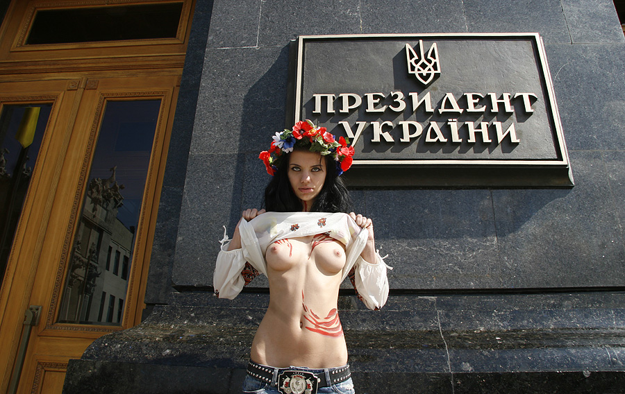 17 May 2010 FEMEN Activist posing topless at Bankovaya St with President of Ukraine sign at the background. Bear scratches symbolize their protest against a pro-Russian politics of Yanukovich that will lead to ruining national interests and influence badly on women.